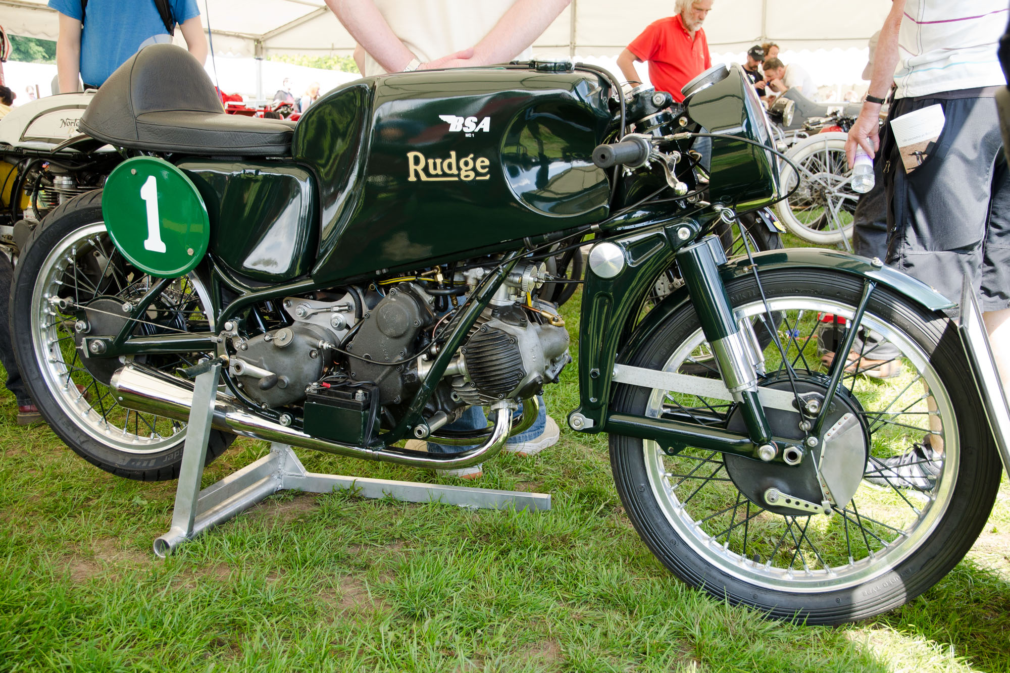 Cholmondeley Pageant of Power 14/06/2014